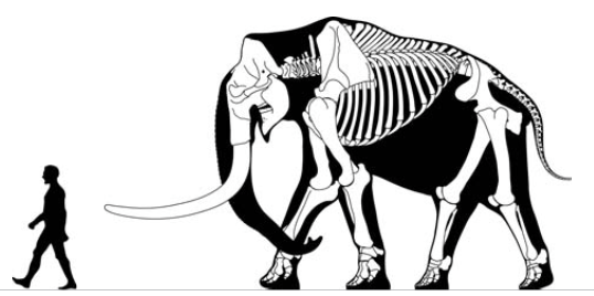 Mammuthus M. meridionalis Scoppito sex male age 55 size group I humerus 1320 femur 1455 pelvis 1750 397 cm • 10.7 t All the skeletal restorations are presented on the same scale (1/100). The human figure is 180 cm tall. Mass estimates are in kilograms for small proboscideans and in tonnes for the larger forms. Shoulder heights are in cm. The age (years), sex, size group, femur and humerus greatest length (mm) (in the case of * it refers to the humerus articular length in mm) and pelvis breadth (mm) are included.